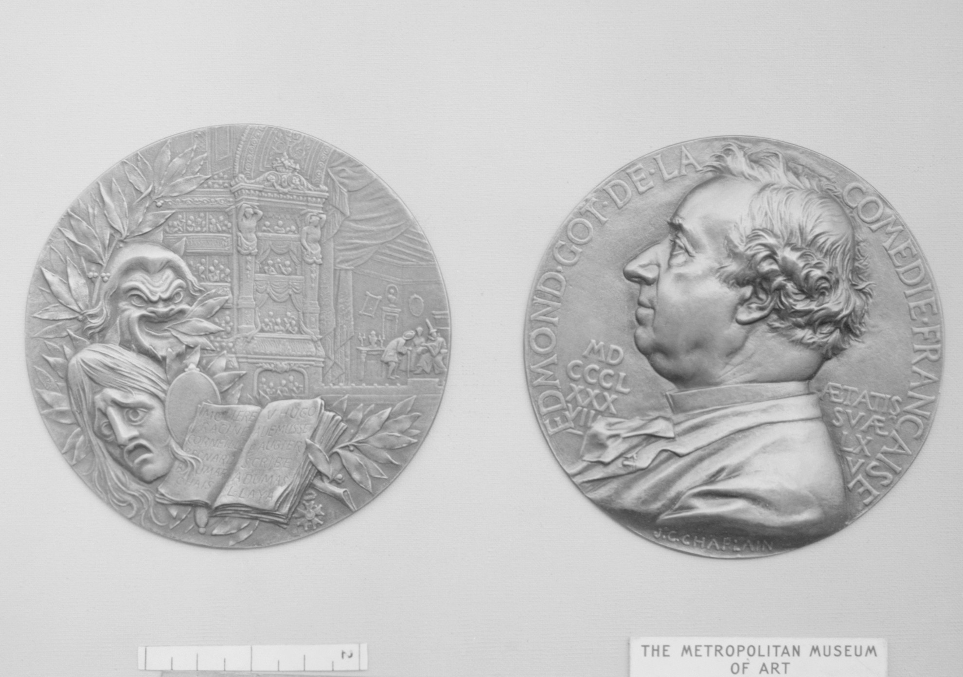 French; Medallion; Medals and Plaquettes